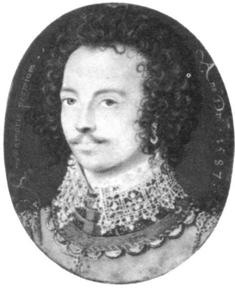 Charles Blount, 1st Earl of Devonshire (1563-1606)